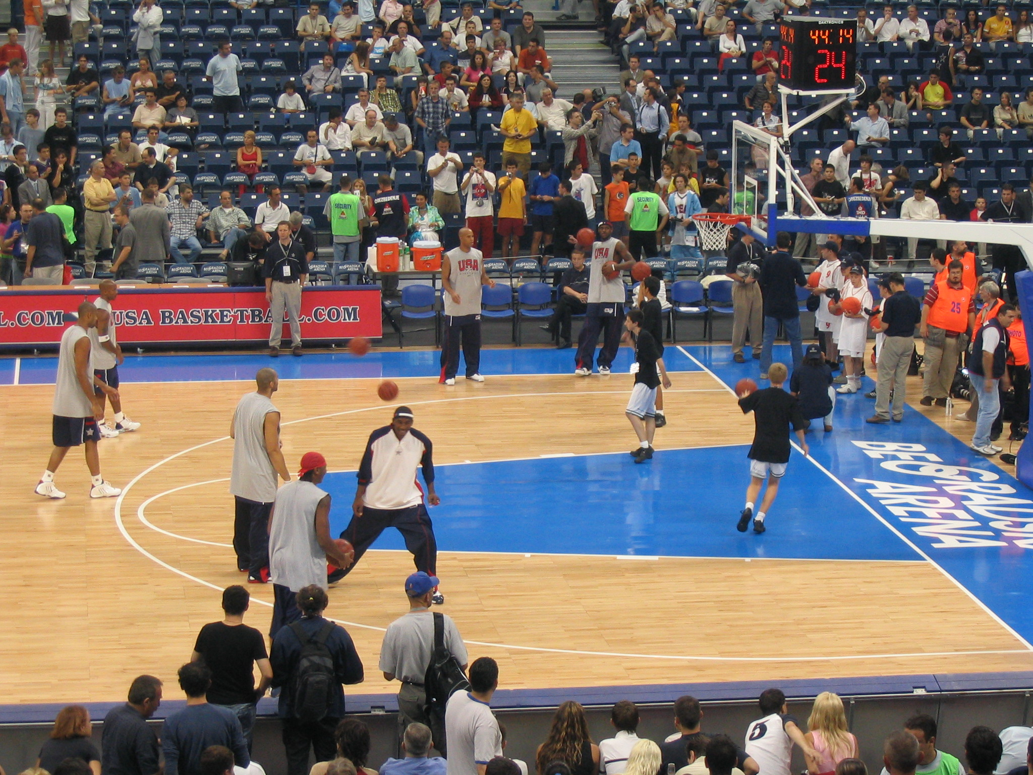 Warm up before the Serbia-Montenegro vs. USA basketball friendly match before the 2004 Olympic Games.